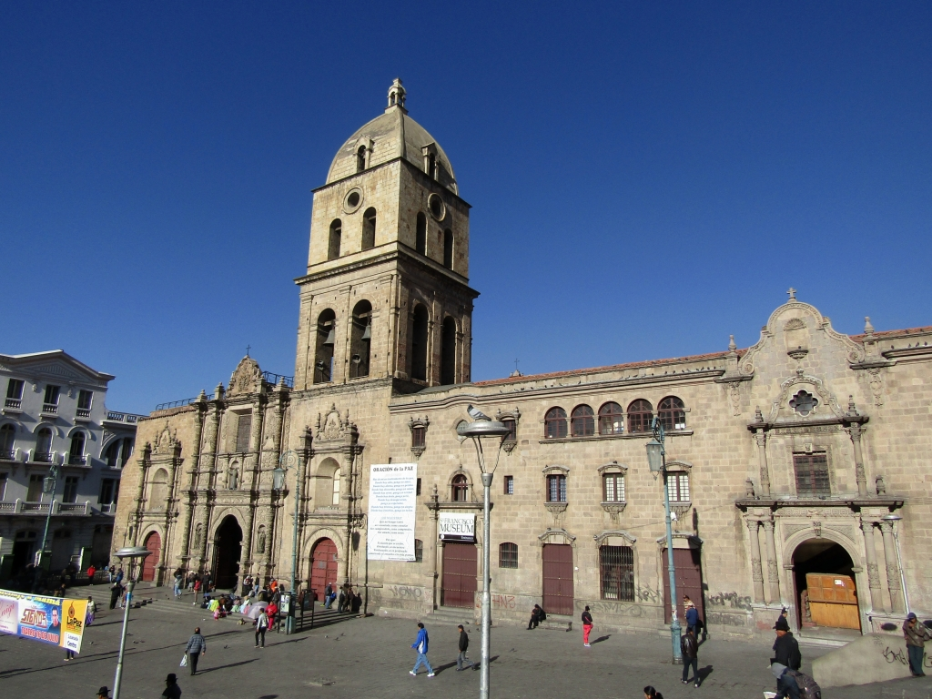 Lan Paz San Francisco Cathedral